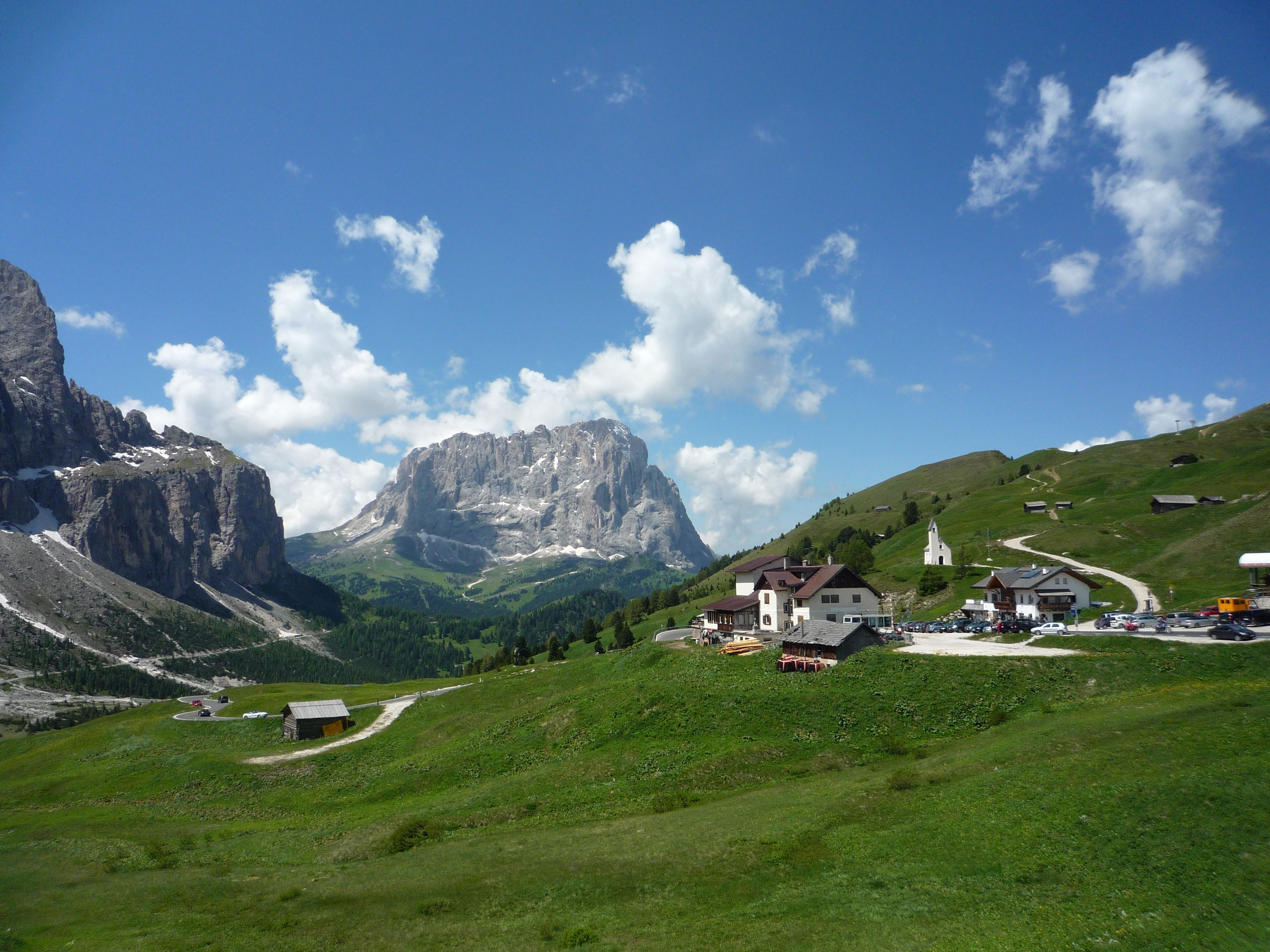 Part of Sellaronda, 4th climb Maratona dles Dolomites, from Selva: Vertical climb: 535 m. Average grade: 5.3 % Highest grade: 10% Starting elevation: 1,508 m. Final elevation: 2,121 m. Distance: 9.5 km Total hairpins: 12 Times Giro d’Italia passed on Erbe: 16 Passo Gardena is also a beautiful climb from the other side, starting in Corvara.